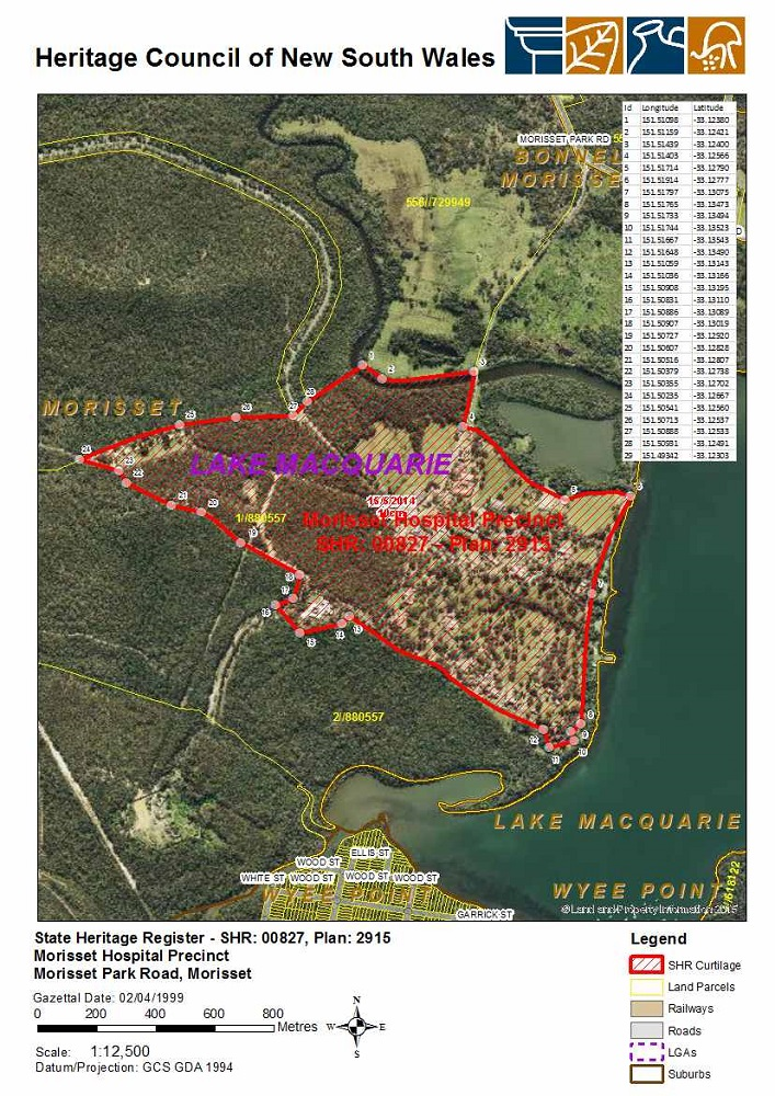 Morisset Hospital: SHR Plan No 2915